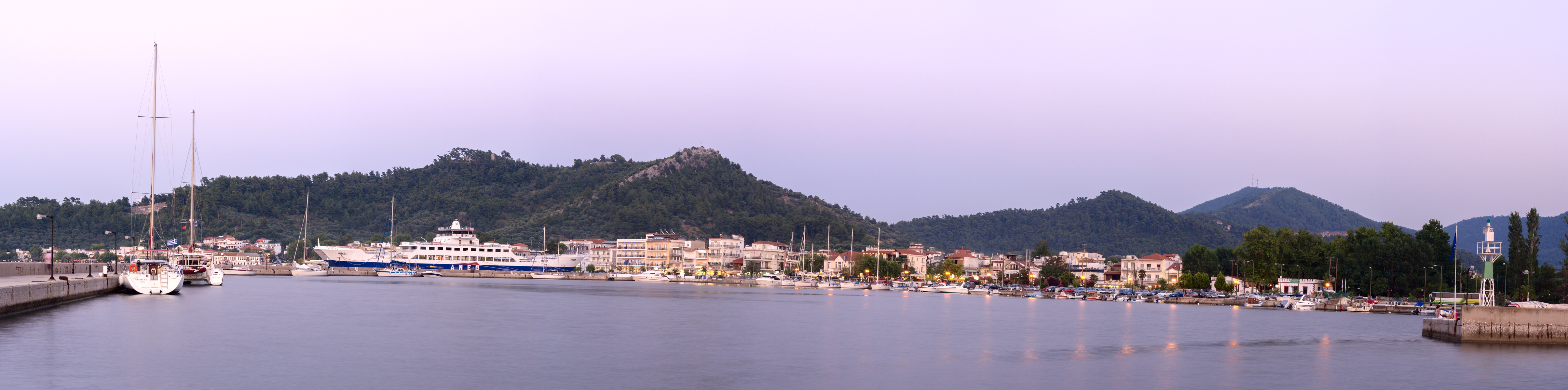 The view on the harbour of Limenas, Thasos